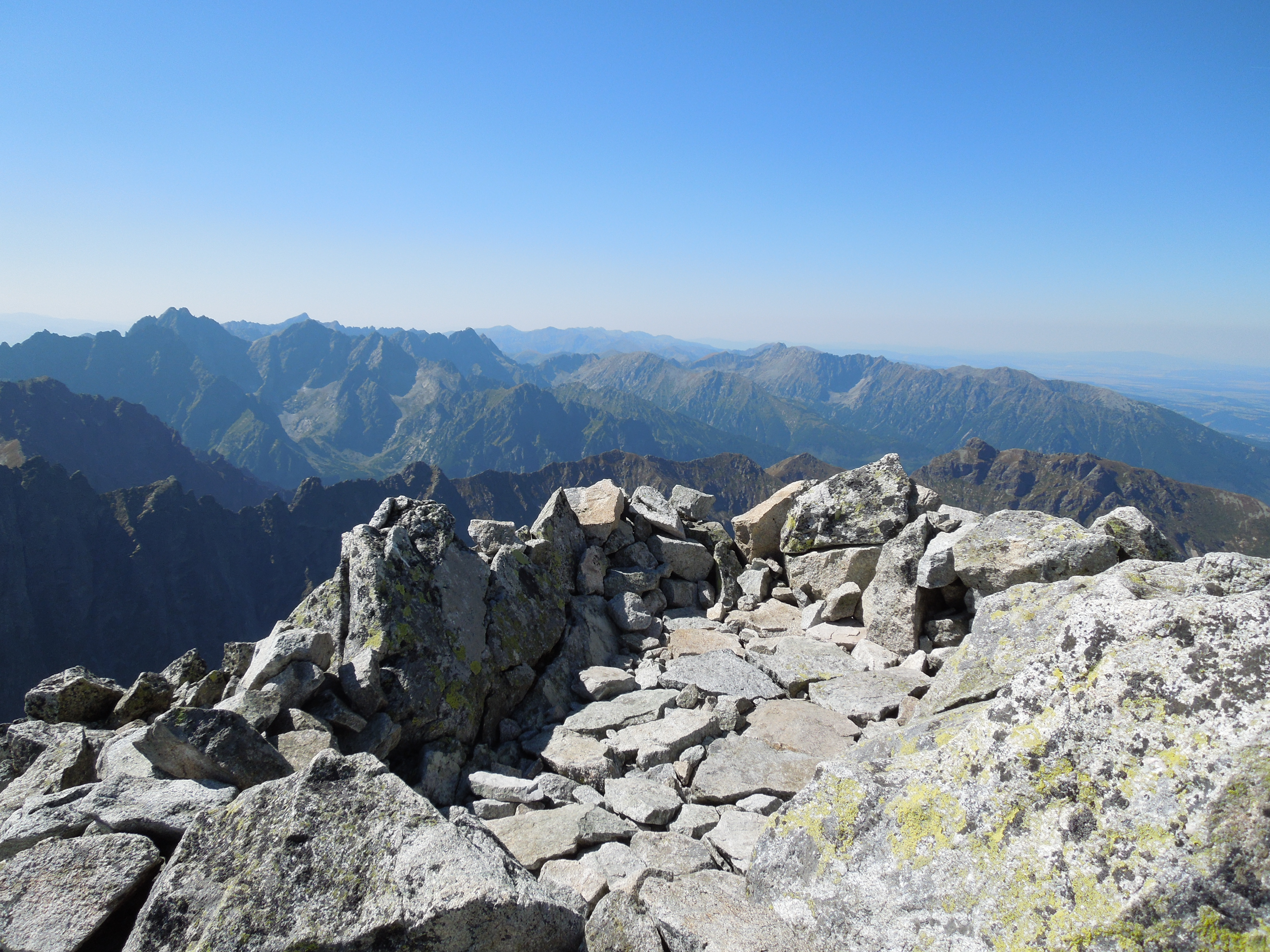 Top of peak Malý Ľadový štít